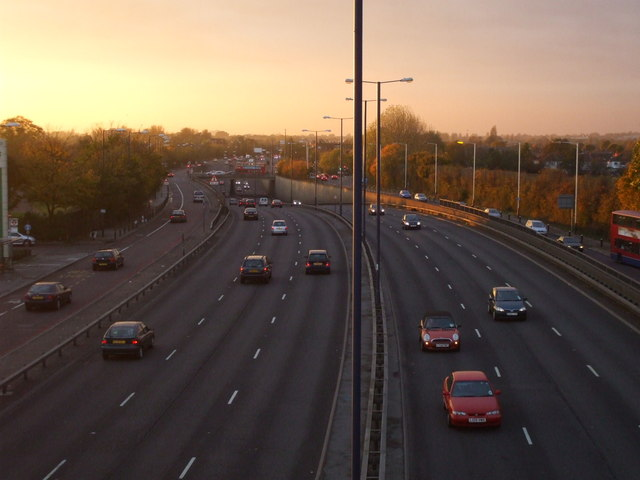 A40 - Western Avenue, Perivale Looking towards the Medway Underpass the next junction up.